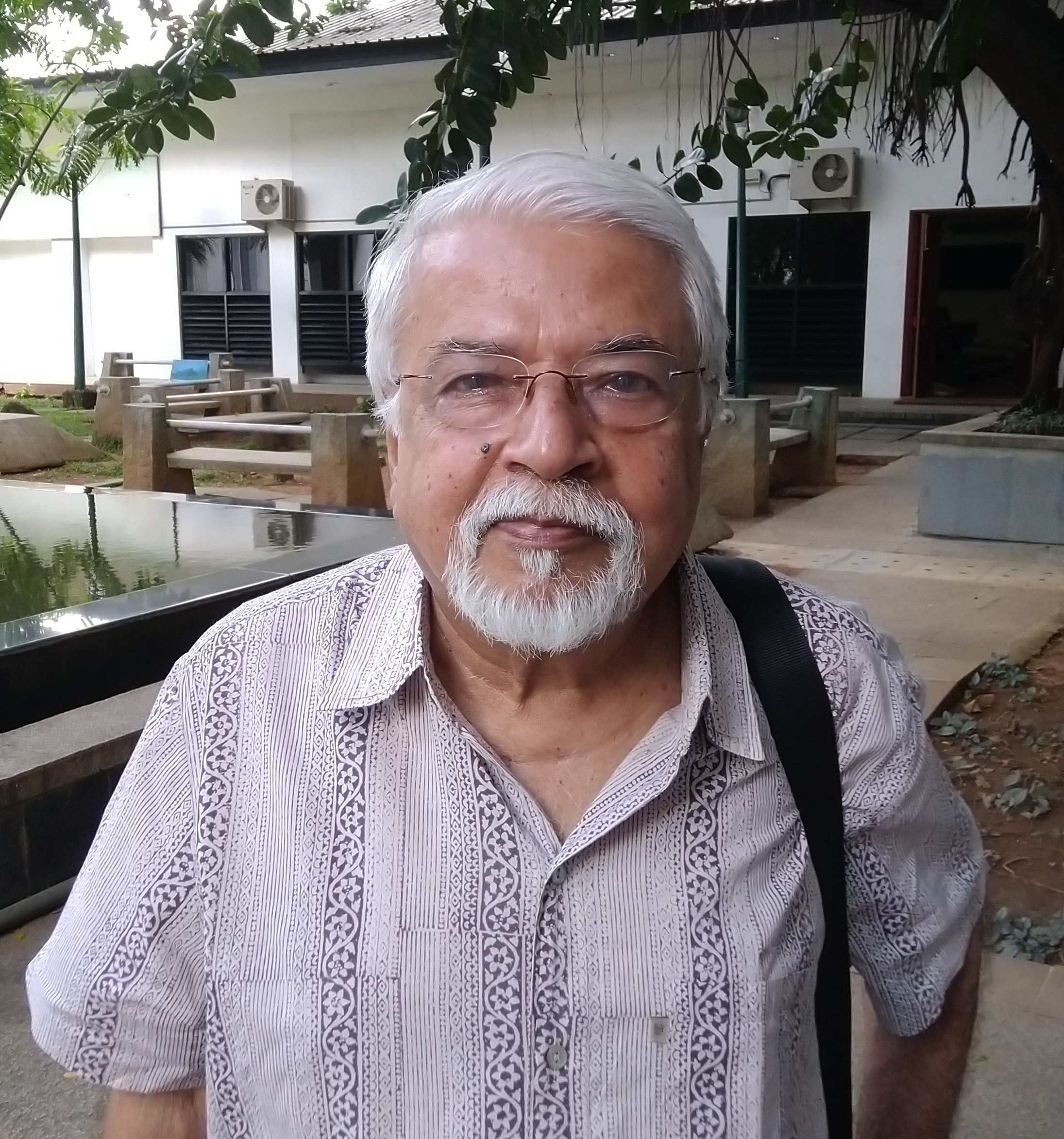 S G Vasudev artist